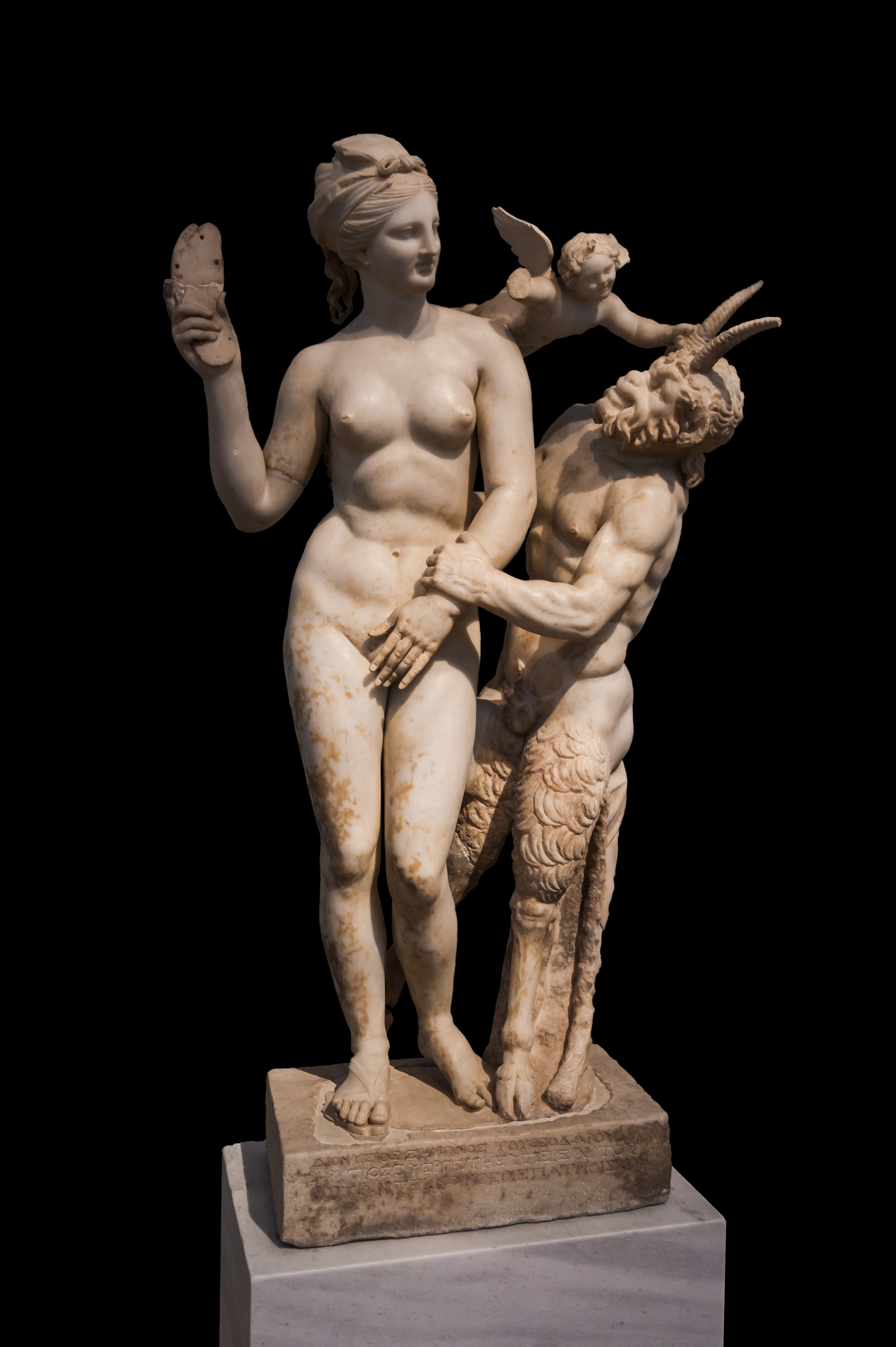 Aphrodite, Pan, Eros, NAMA 3335, Athens, Greece